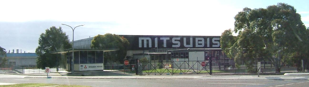 Mitsubishi Motors Australia Limited plant at Clovelly Park, South Australia.